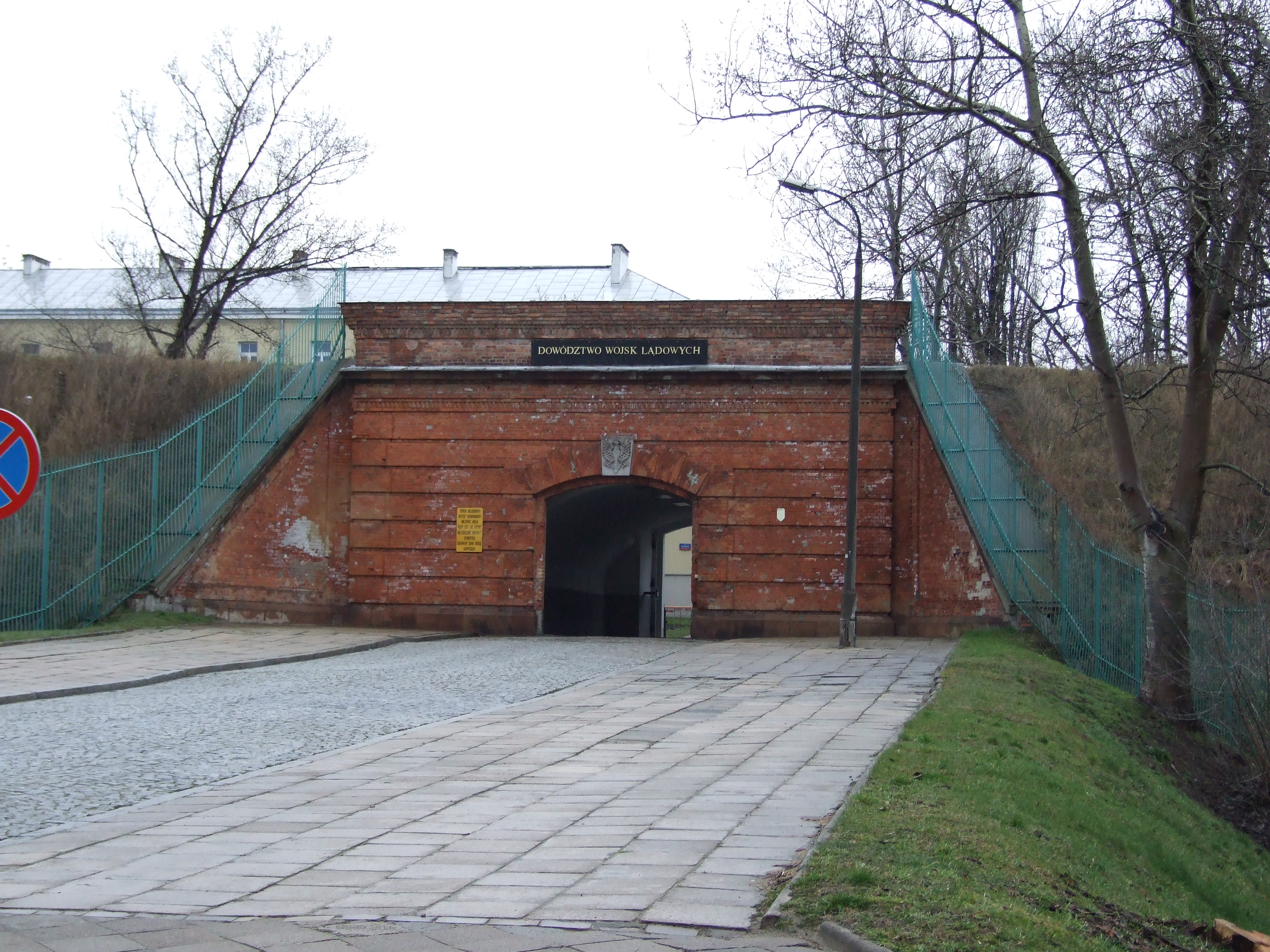 Warsaw Citadel at Żoliborz part of the city